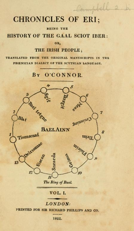 front page of the Chroniclles of Eri